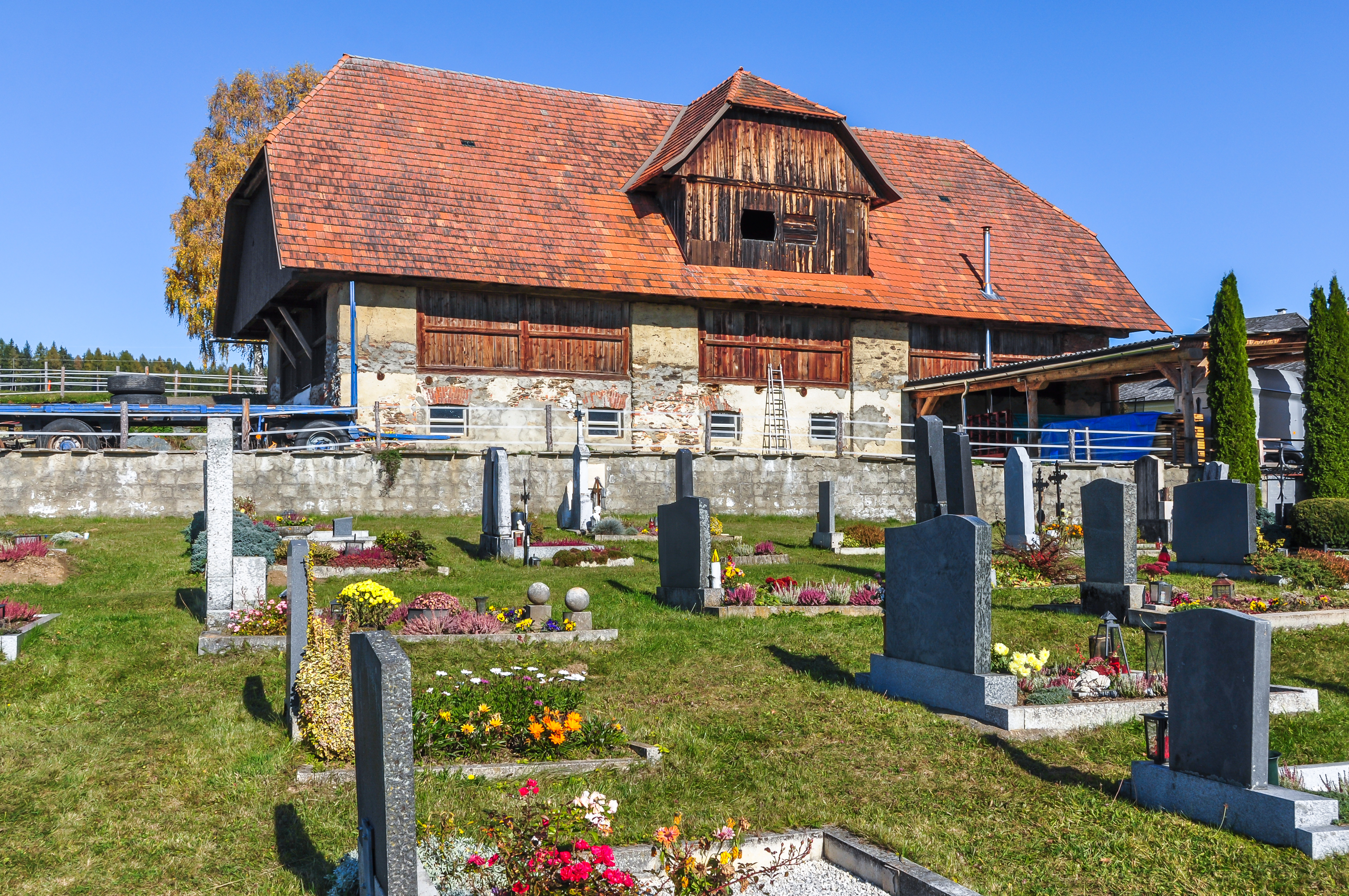 Cemetery and barn in Sankt Jakob, municipality Straßburg, district Sankt Veit, Carinthia, Austria, EU